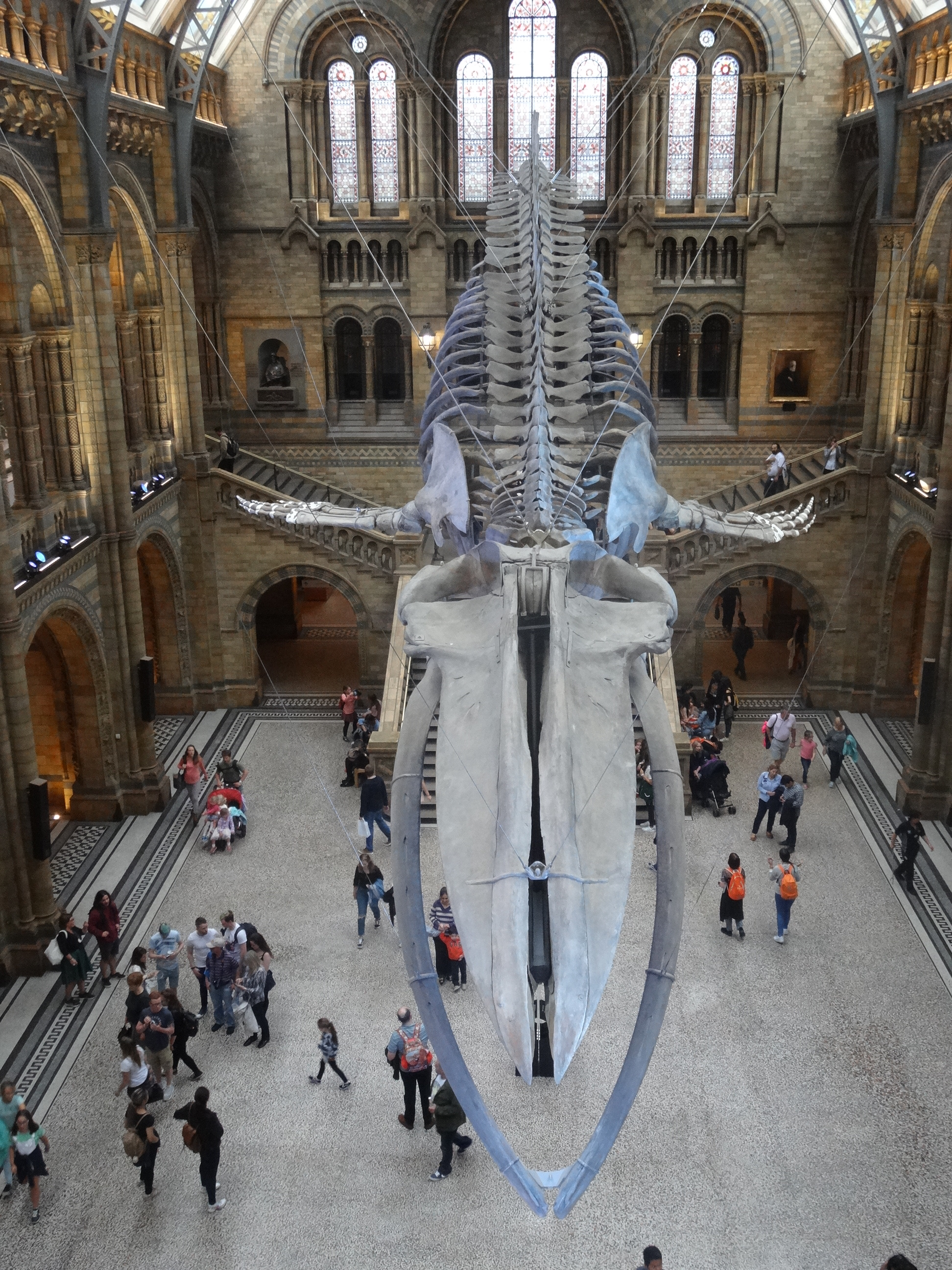 July 2017. Blue whale skeleton at the Central Hall of the Natural History Museum, London